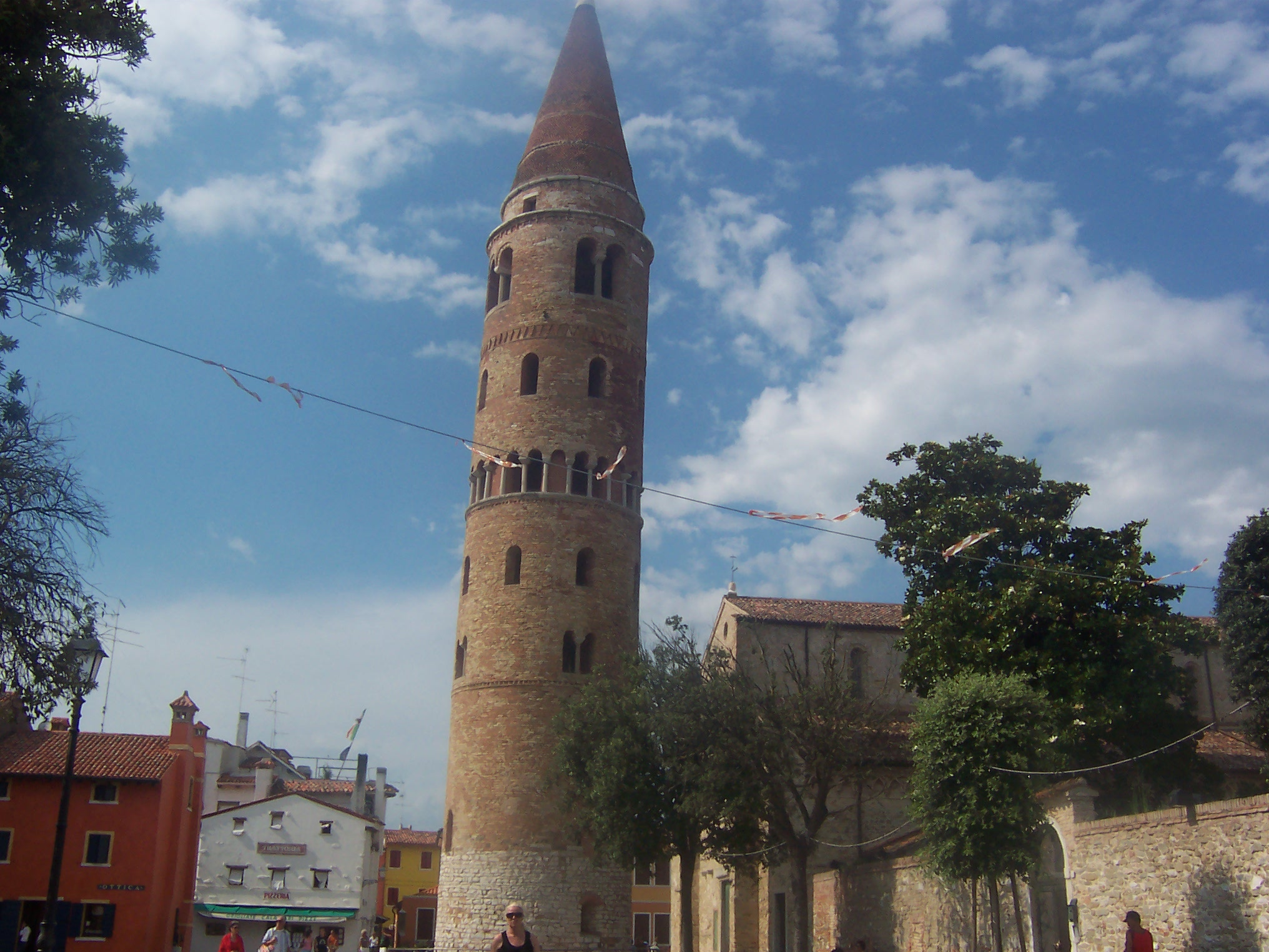 Round tower in Caorle, Italy.